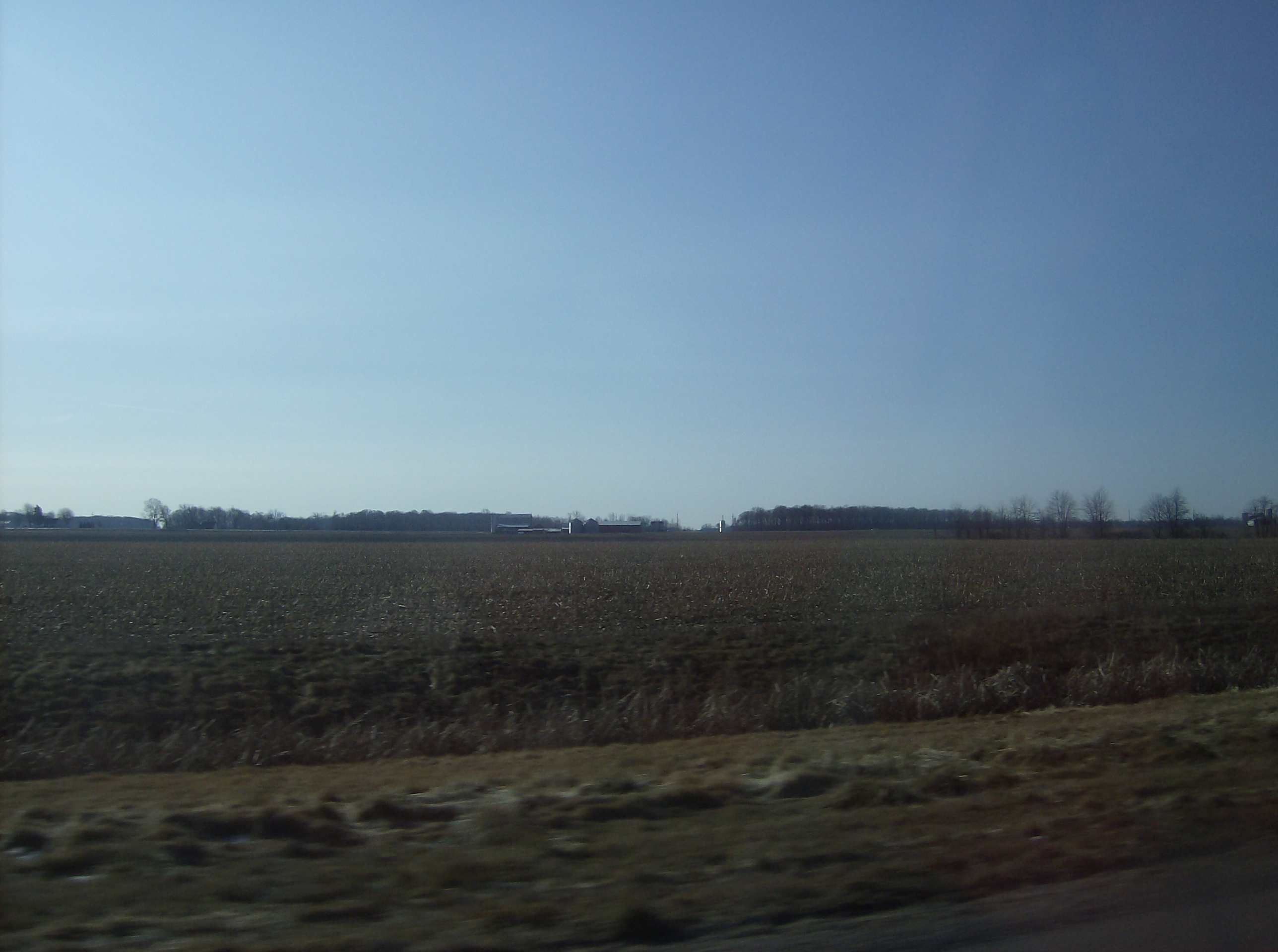 Farmland in west-central Washington Township, Van Wert County, Ohio, United States. Picture taken southward from U.S. Route 30.